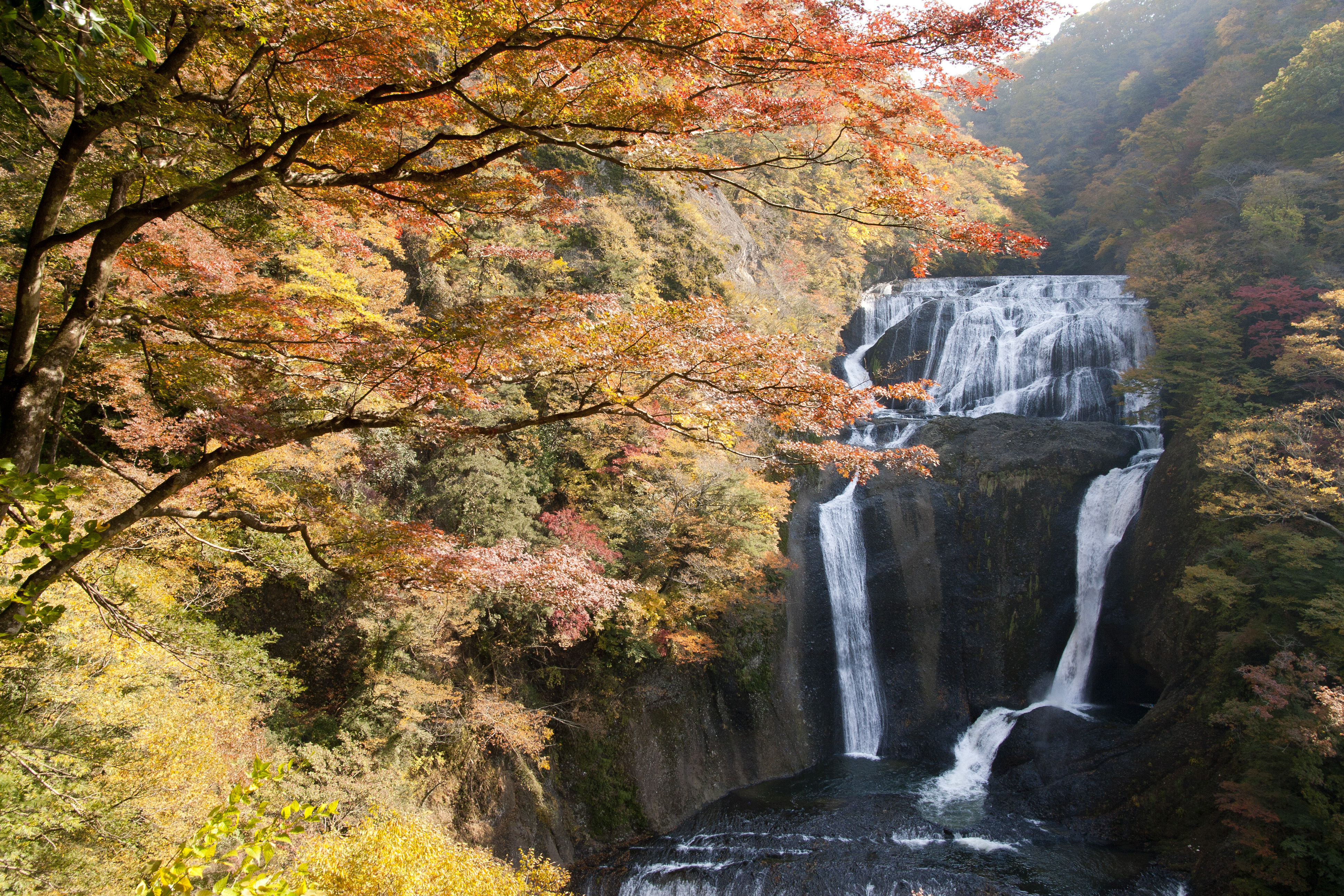 Fukuroda Falls (Fukuroda-no-taki 袋田の滝) in Daigo Town, Ibaraki Pref., Japan